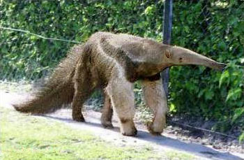 Giant anteater (Myrmecophaga tridactyla), Aalborg Zoo, Denmark, 2003.